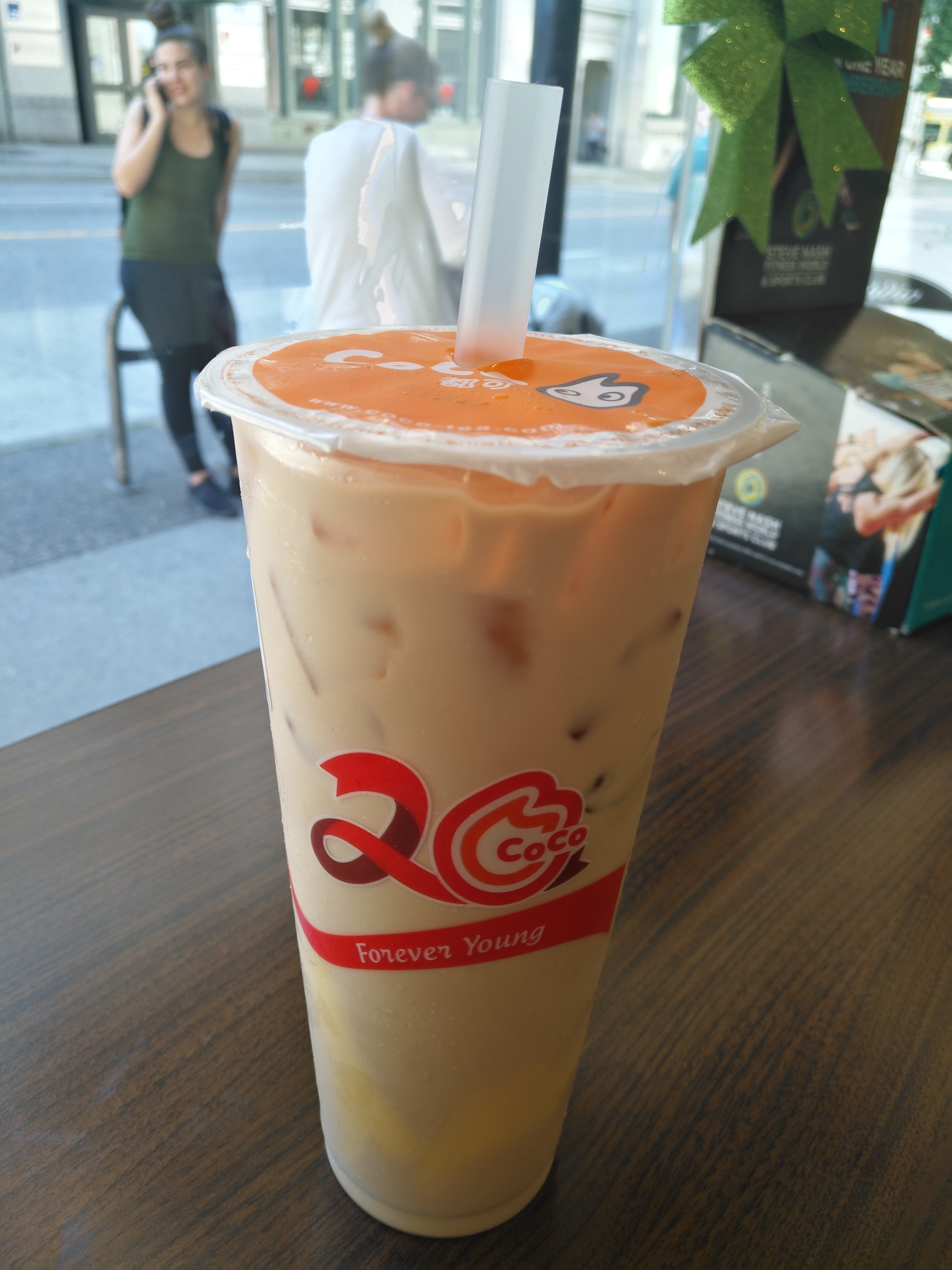 Pudding Milk tea, which I bought in CoCo Downtown in Vancouver, BC, Canada. This is my favorite drink. 中文（中国大陆）: 我在都可茶饮加拿大温哥华市中心店买到的一杯布丁奶茶，这是我最爱喝的一款。